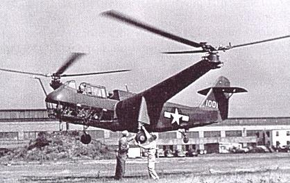 Platt-LePage XR-1 Serial No. 41-001, the U.S. Army Air Corps' first helicopter.